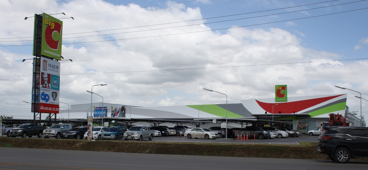 Big C Supercenter, Wichian Buri, in the province of Phetchabun. Opened on December 25, 2017.